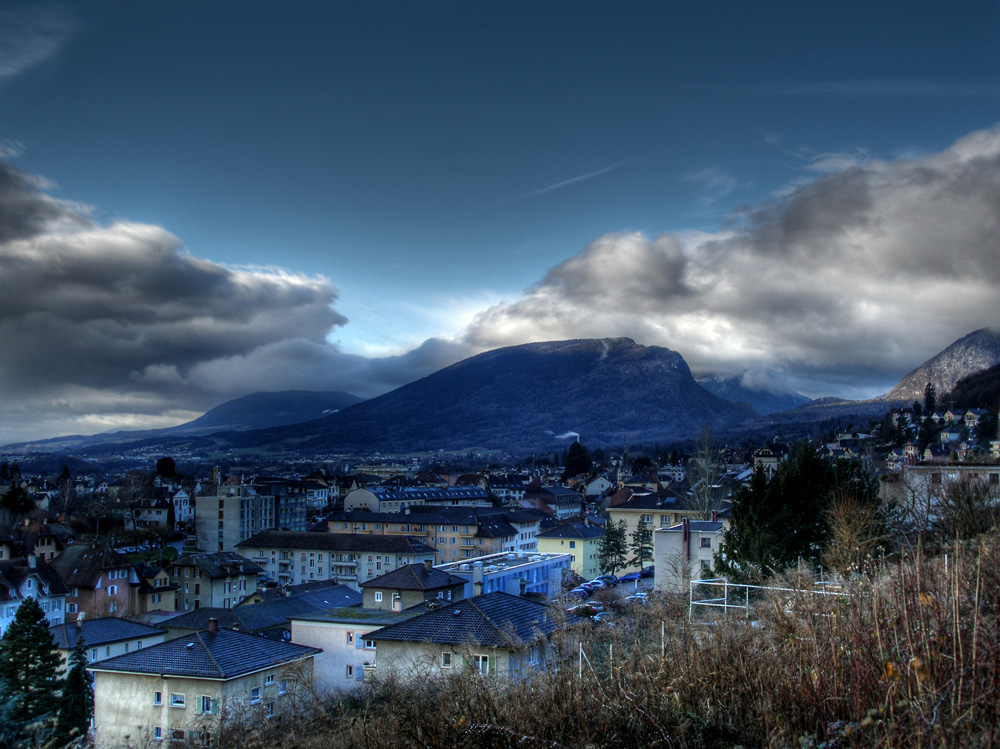 From the heights of Peseux, looking toward Boudry in Neuchatel, Switzerland